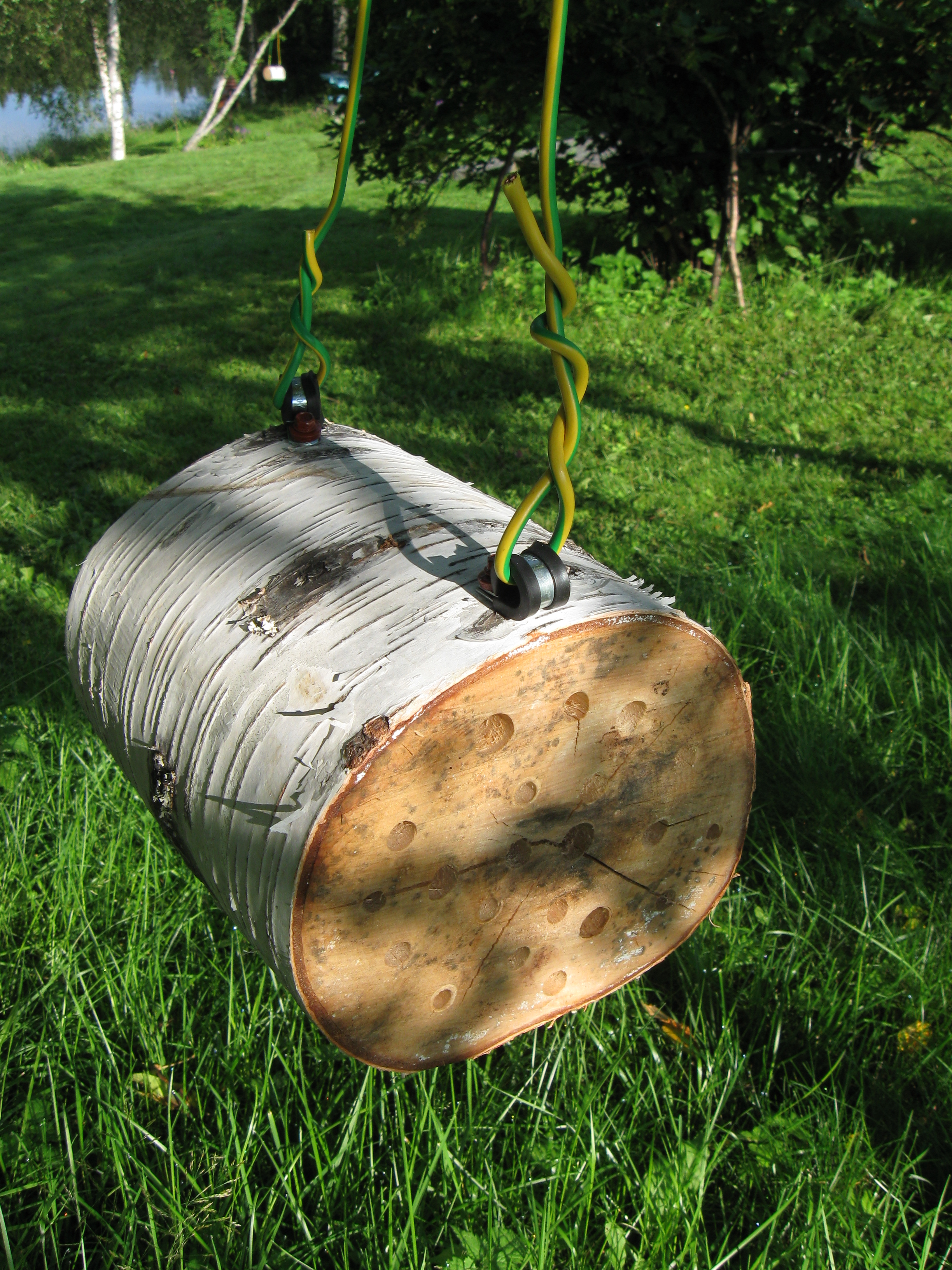 An simple insect hotel made out of a block of birch tree and placed into the garden.